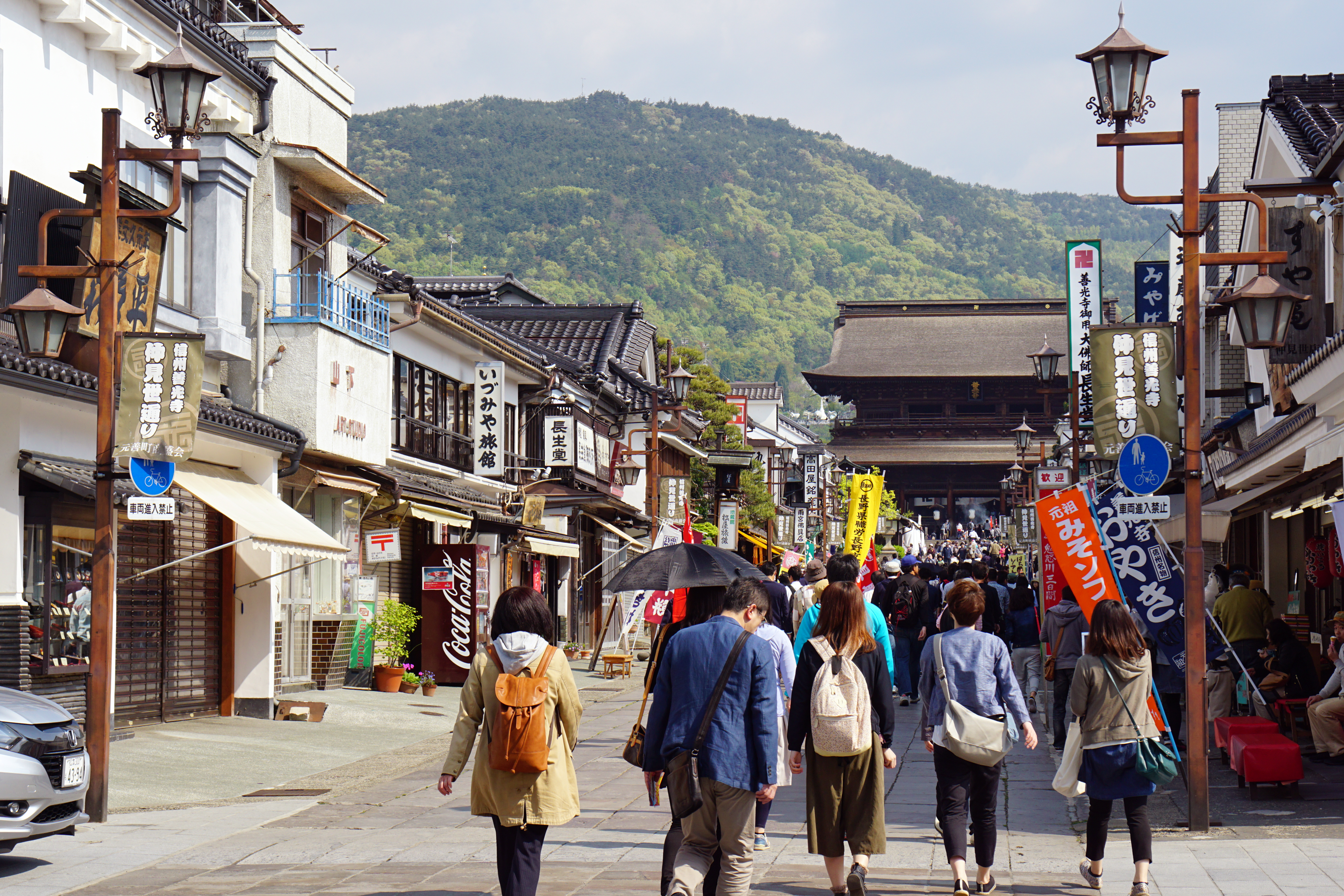 Zenkō-ji in Nagano, Nagano prefecture, Japan.